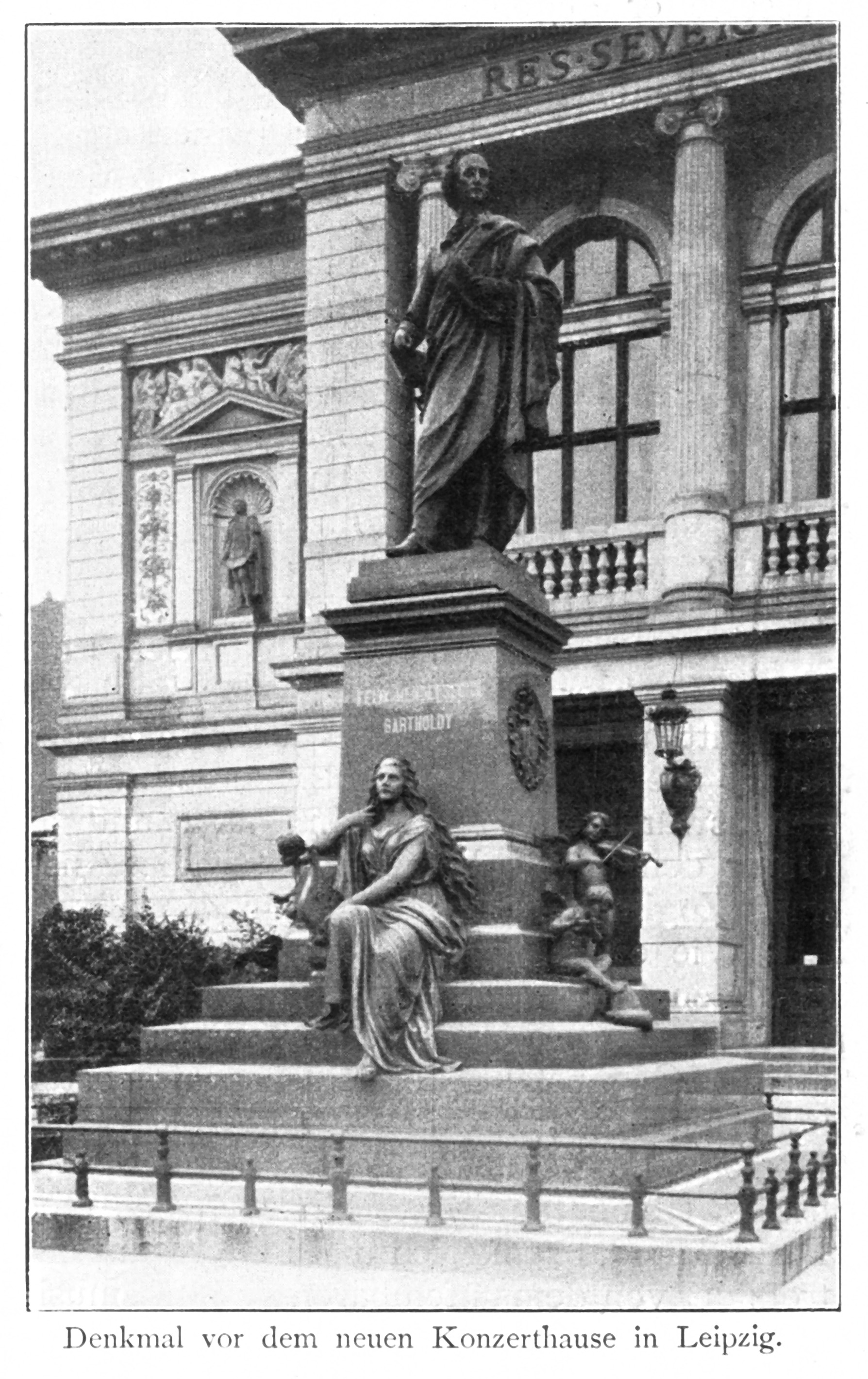 Felix Mendelssohn Bartholdy, old monument in front of the Gewandhaus, Leipzig